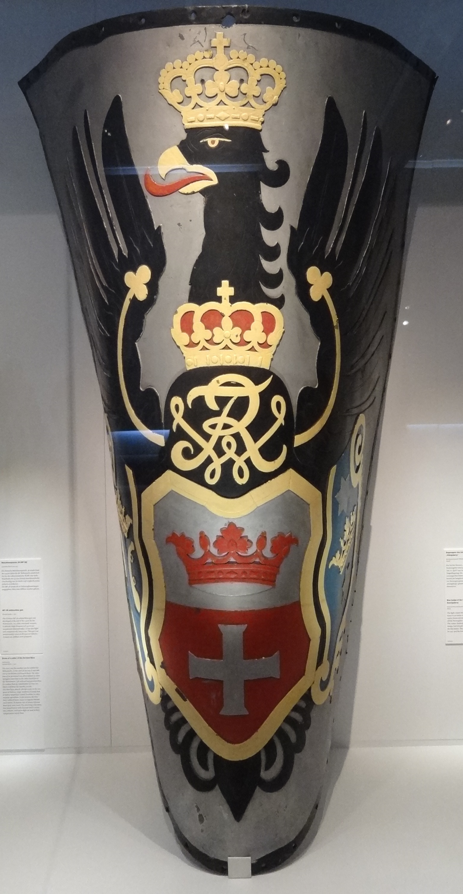 Picture taken in Dresden, Bundeswehr Military History Museum